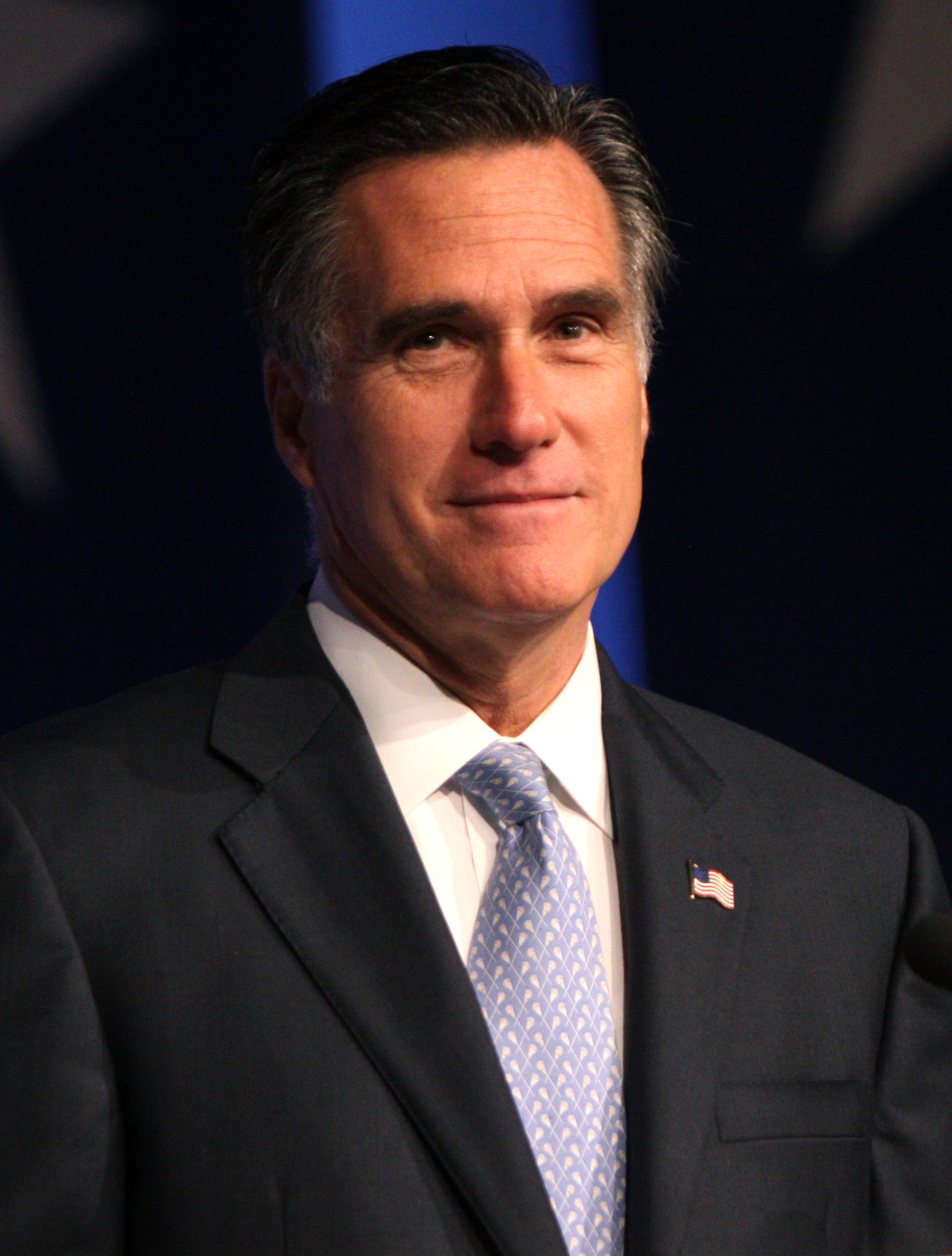 Mitt Romney speaking at the Values Voter Summit (Omni Shoreham Hotel) in Washington D.C. on October 7, 2011.